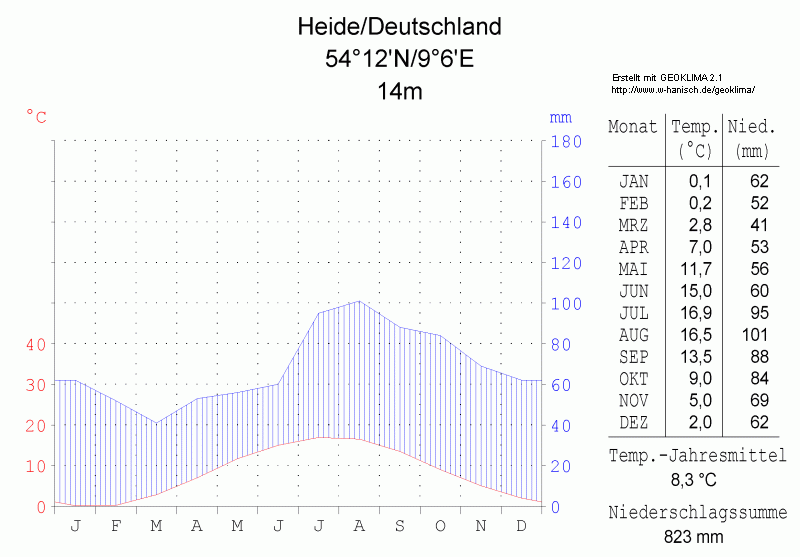 climate chart in the format by Walther and Lieth, metric, °Celsisus and millimeters, made with Geoklima 2.1